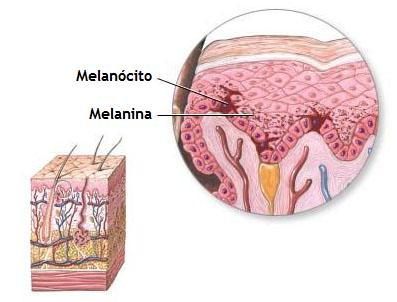 Portuguese translation of the original image